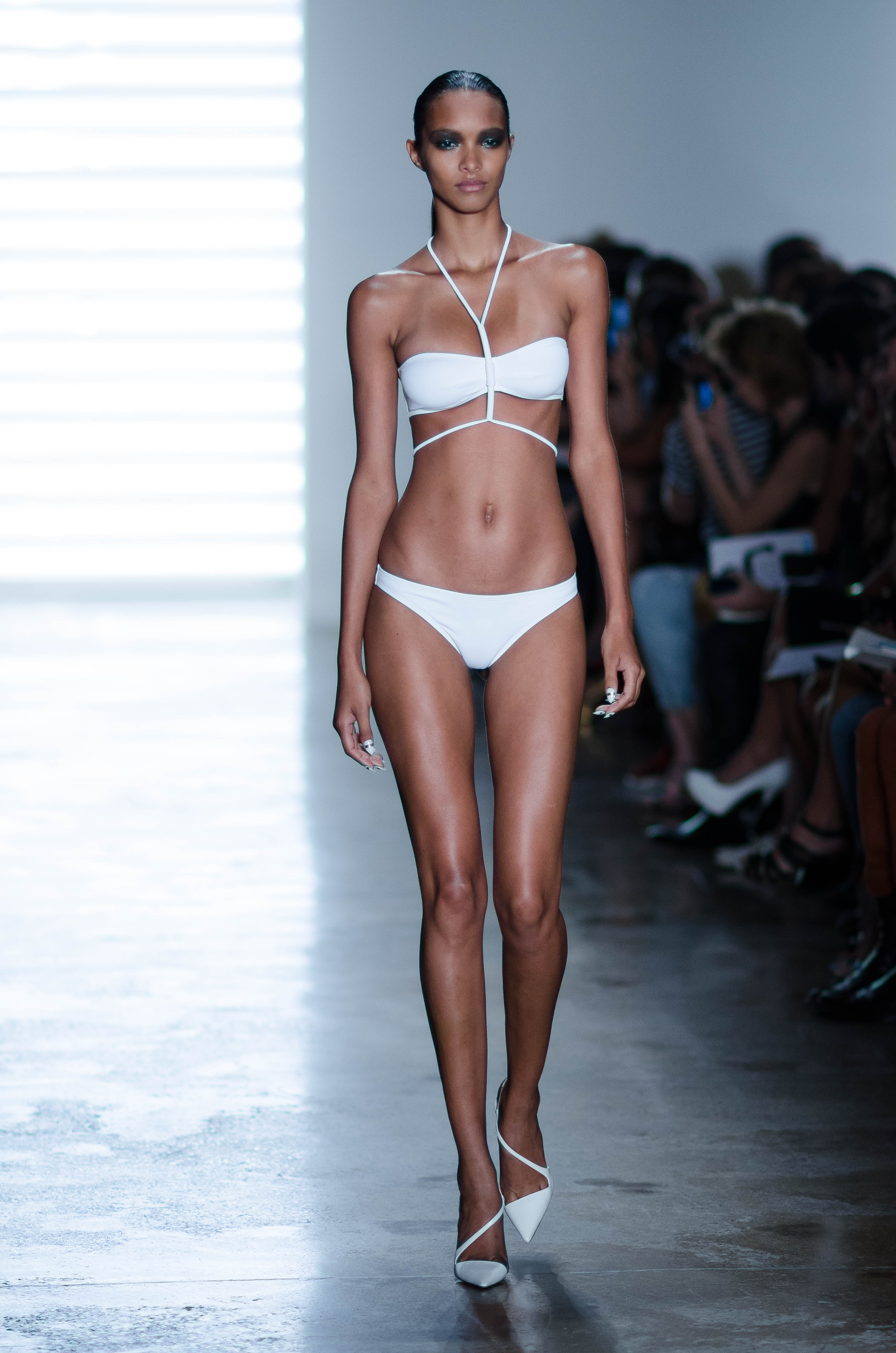 Lais Ribeiro walking for Cushnie et Ochs.